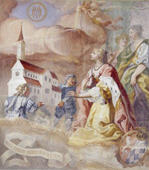 Ludmila of Bohemia